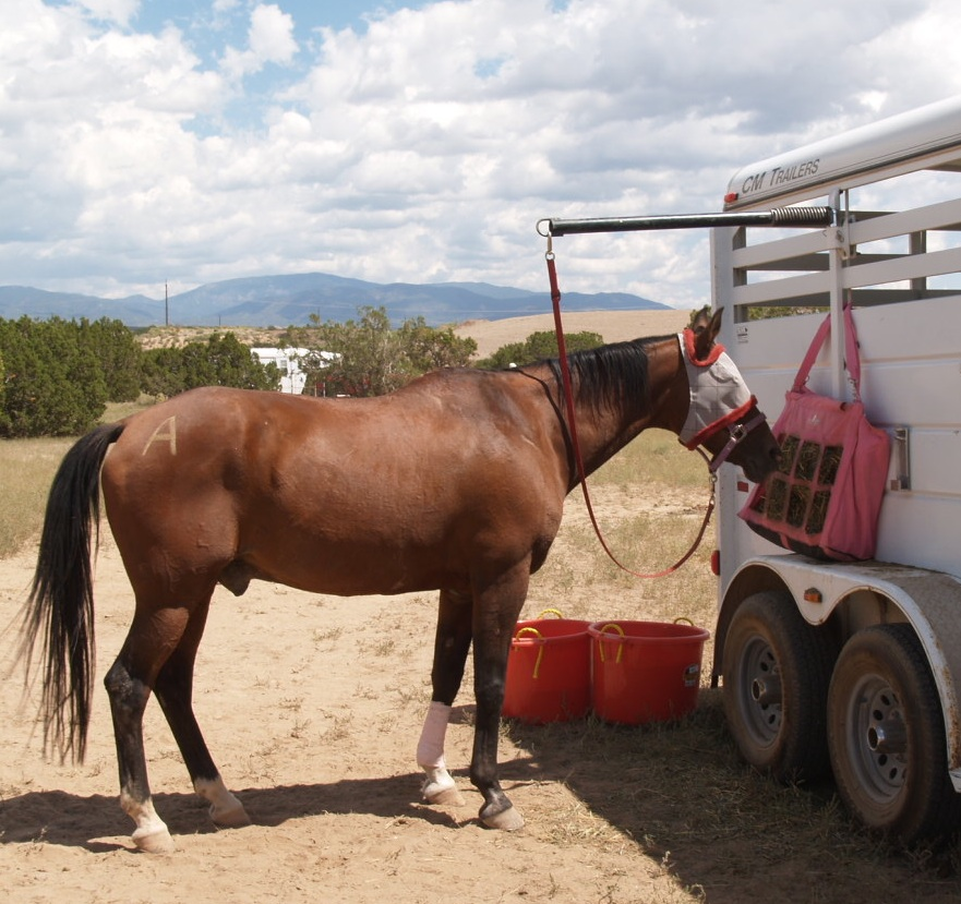 Horse tied from overhead horizontal rod, mounted via a spring to a horse trailer.